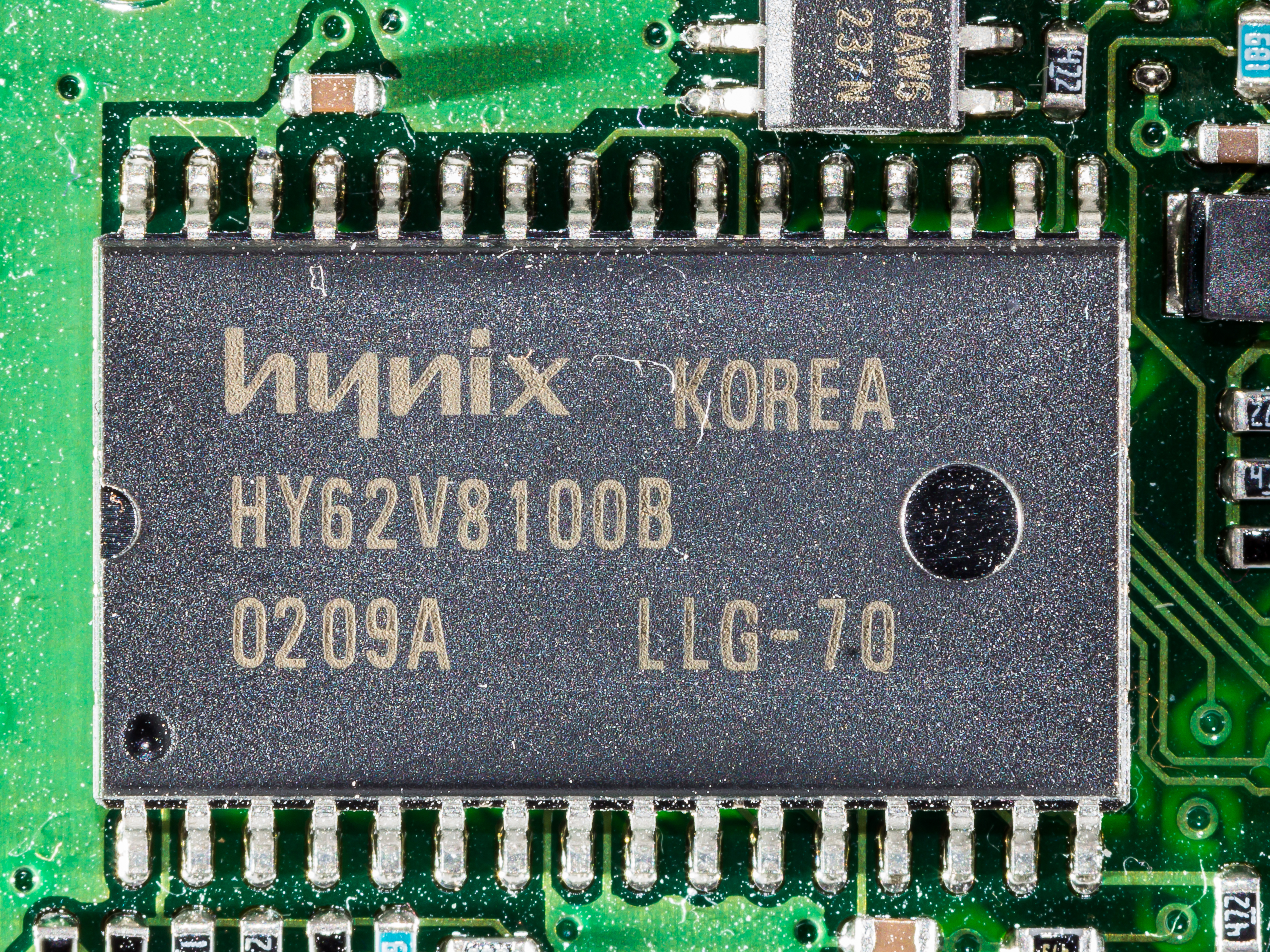 Hynix HY62V8100B - 128K x8 bit 3.3V Low Power CMOS slow SRAM